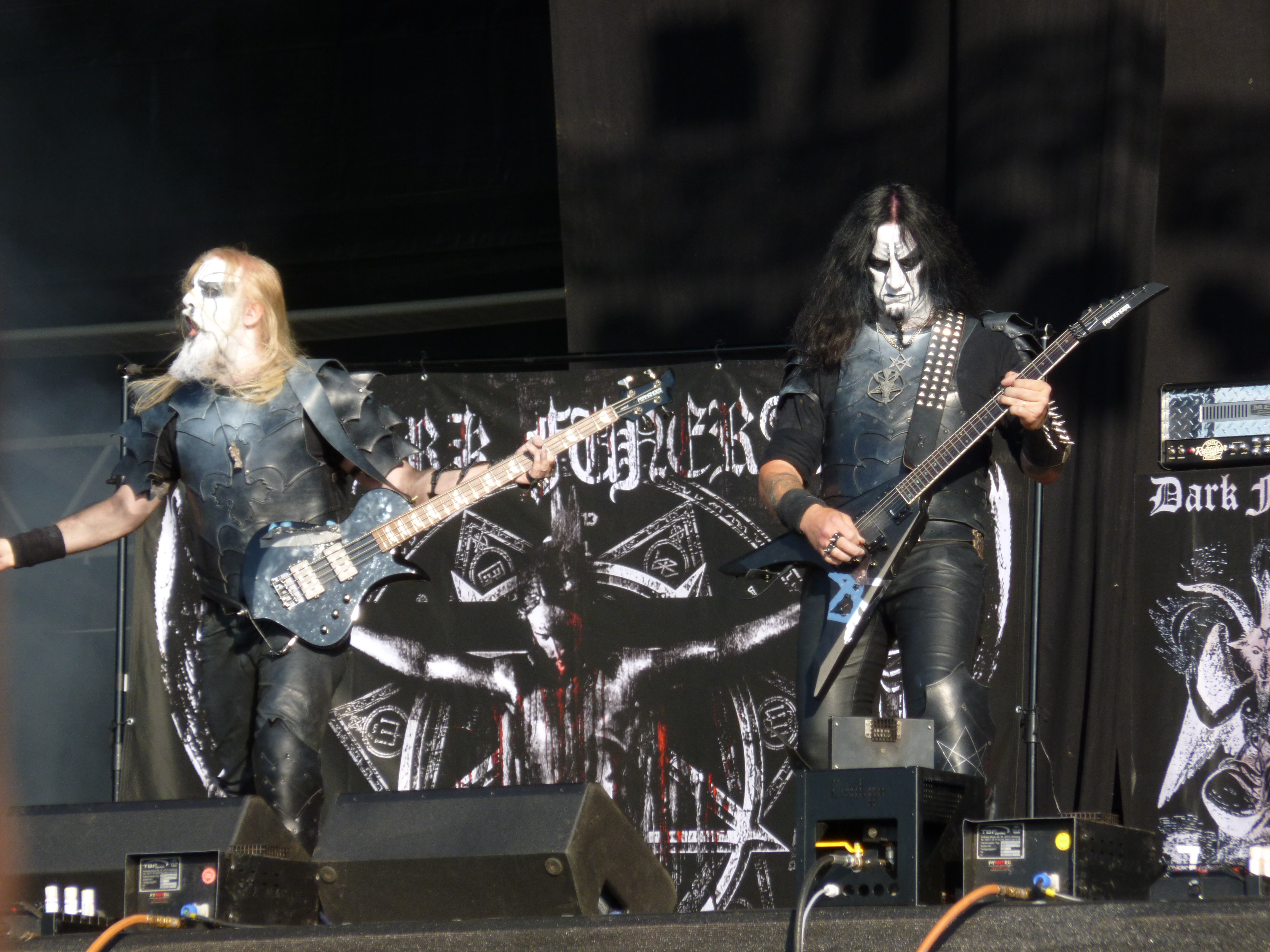 Swedish black metal banda Dark Funeral performing live at Wacken 2012.